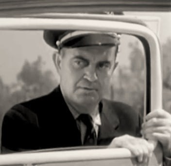 George Cooper in the film Sitting on the Moon (1936) - cropped screenshot